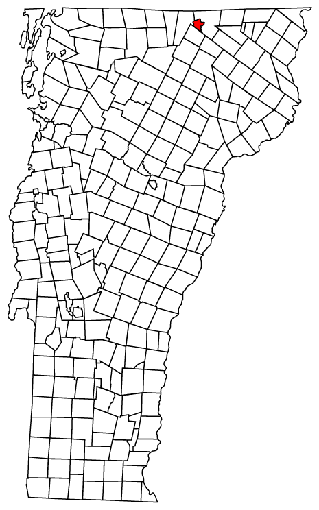 Description: Map of Vermont towns with Newport City highlighted Source: Map created by Jared C. Benedict on 26 March 2004. Copyright: © Jared C. Benedict.